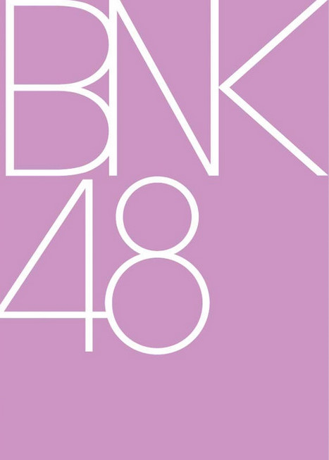 BNK48 Logo